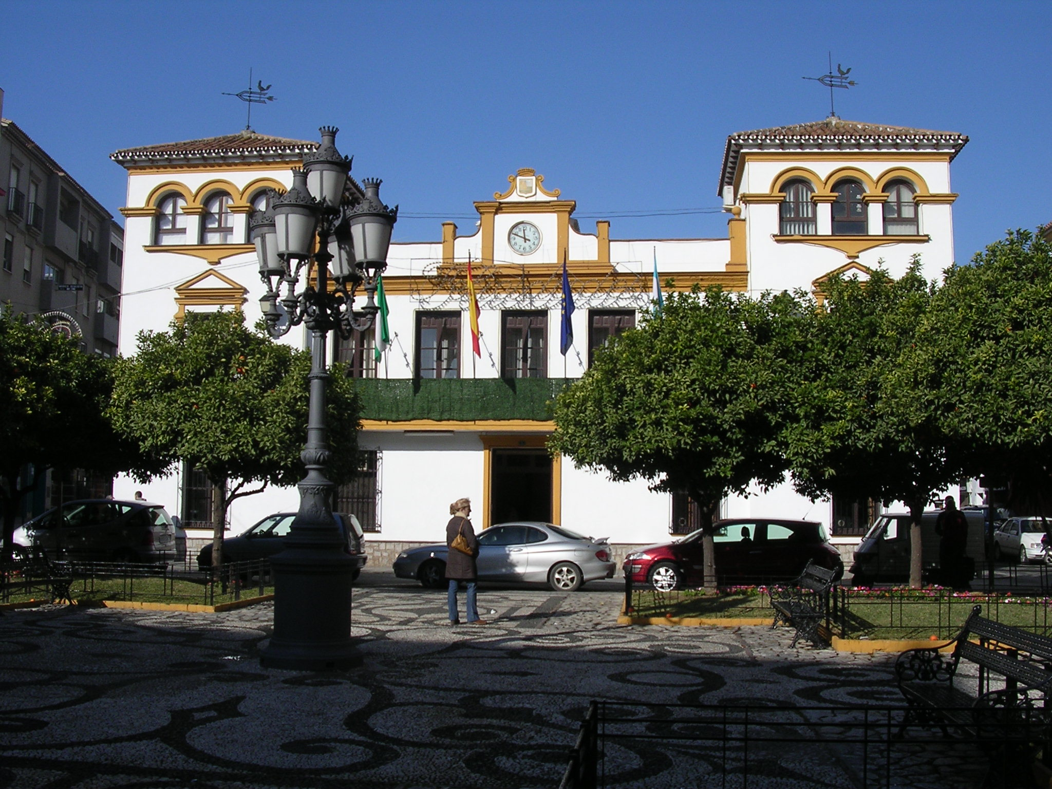 Old Town Hall of Fuengirola, Spain. Built in 1868 and reformed by Antonio Rubio Torres in 1957 when regionalist elements where added